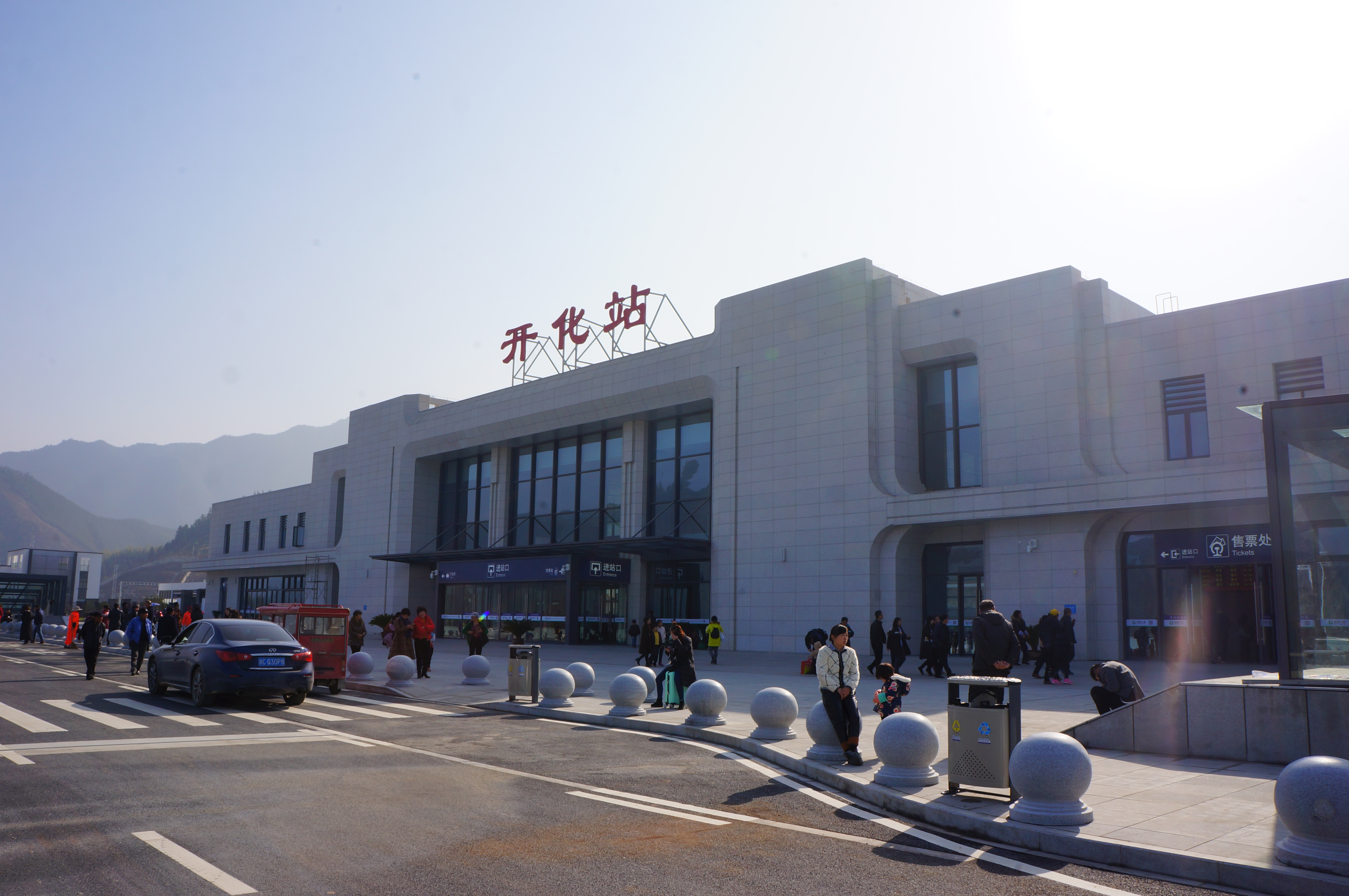 201712 Station Building of Kaihu Station